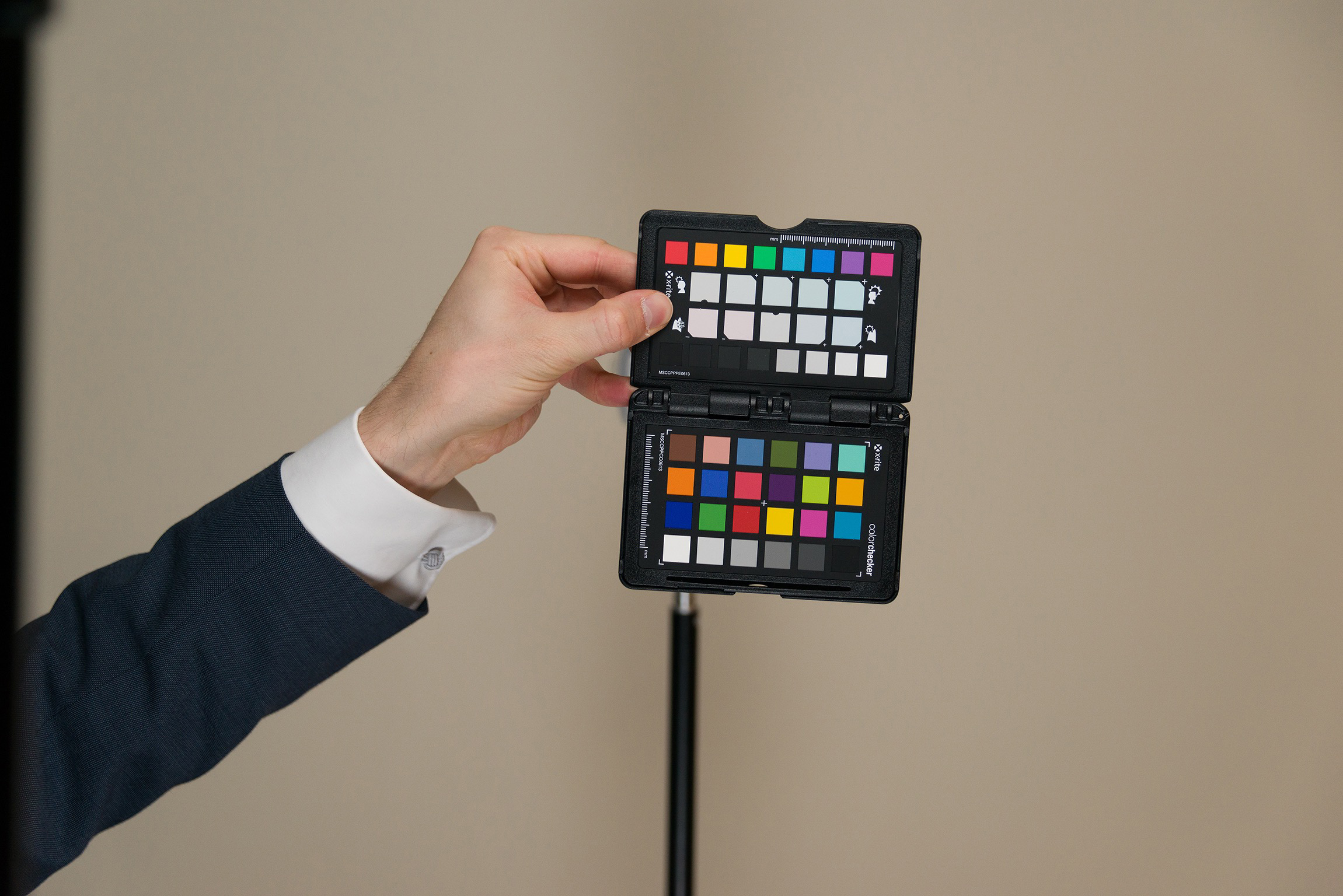 The ColorChecker helps photographers get all the colors on their images real and find the right white balance.